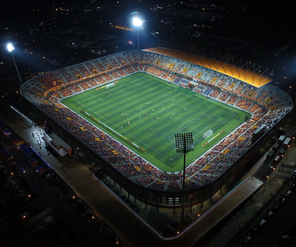 Home of Felda United Football Club (aka The Fighters)